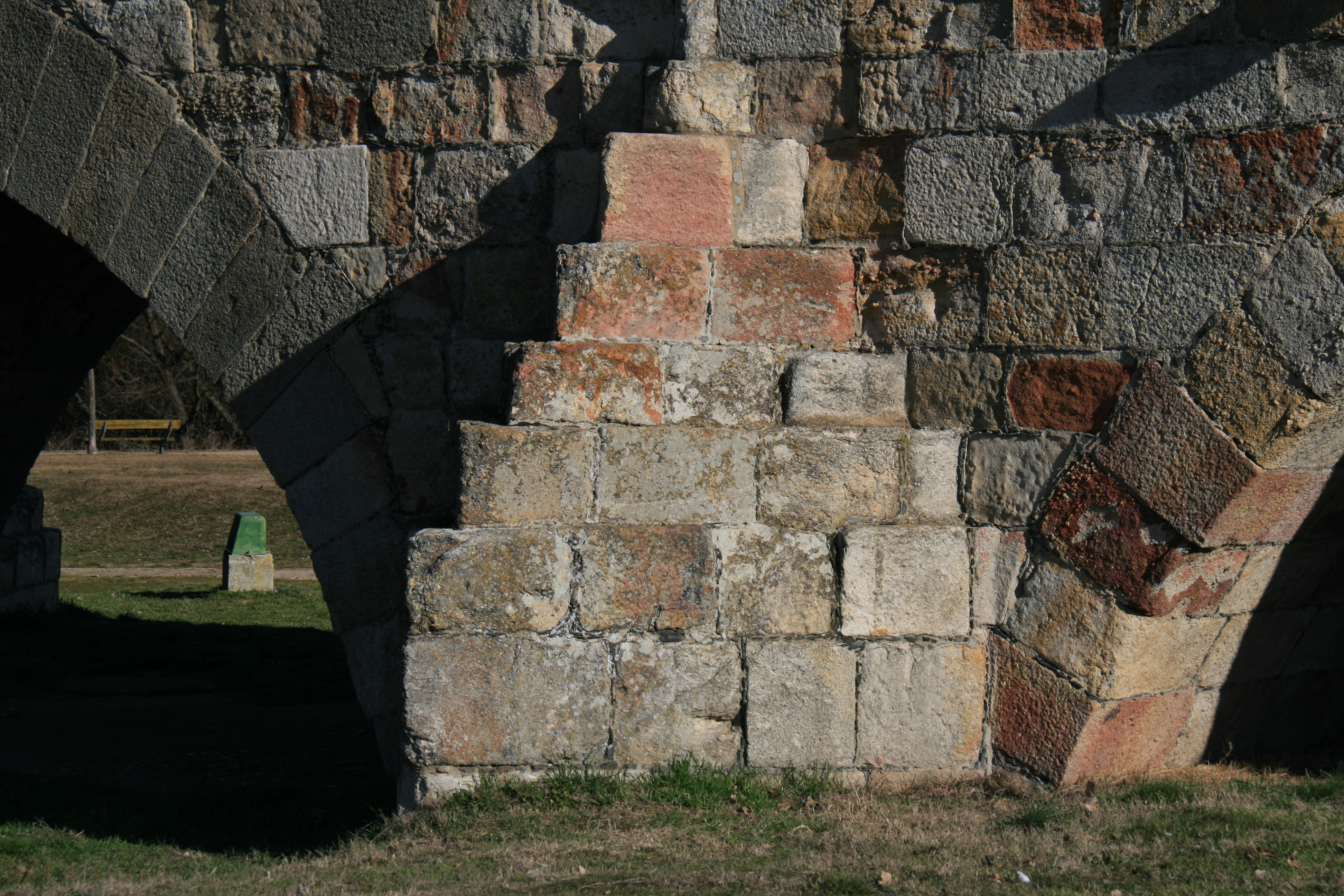 Starling - Salamanca Bridge